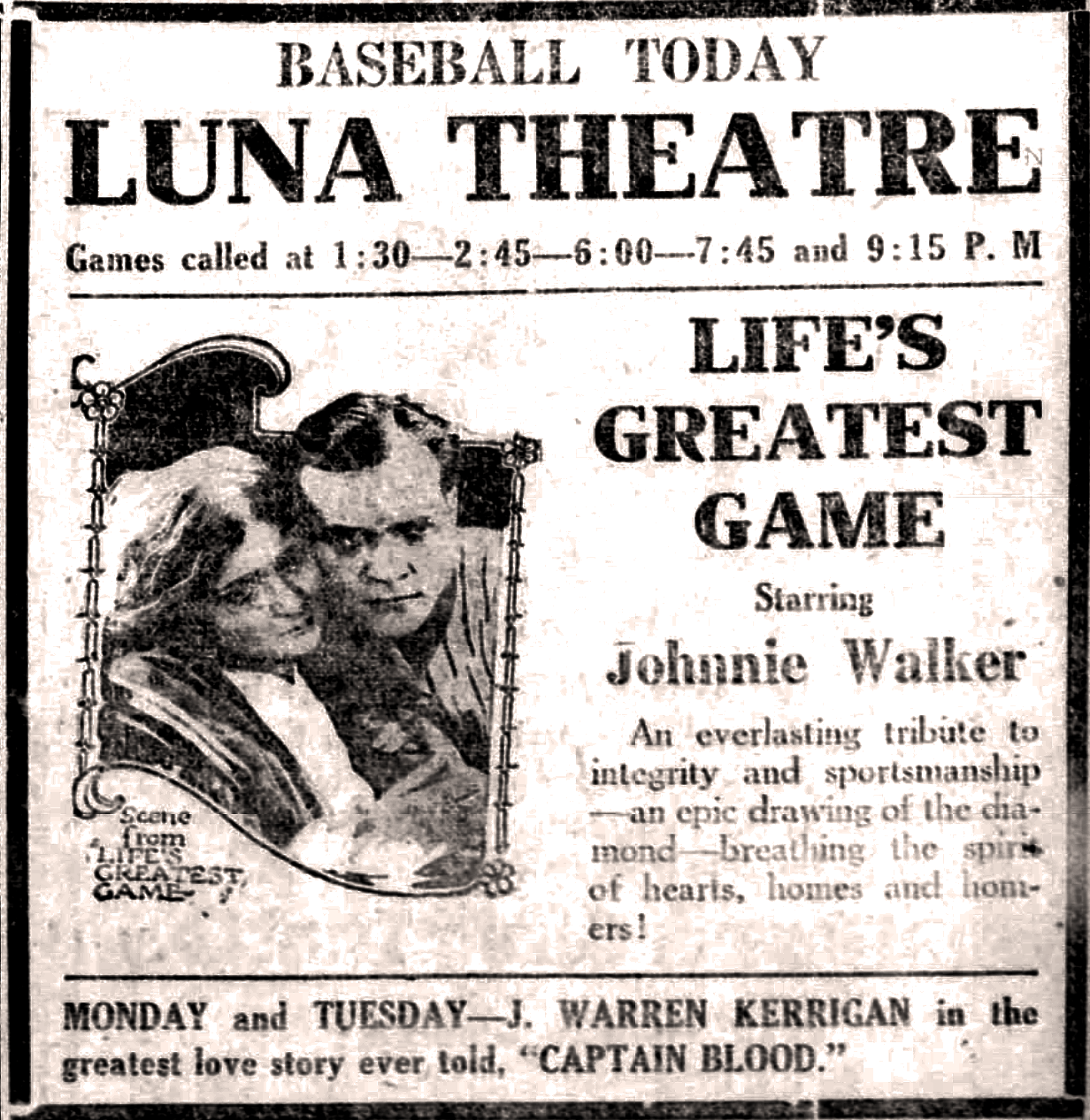 Newspaper ad for the movie